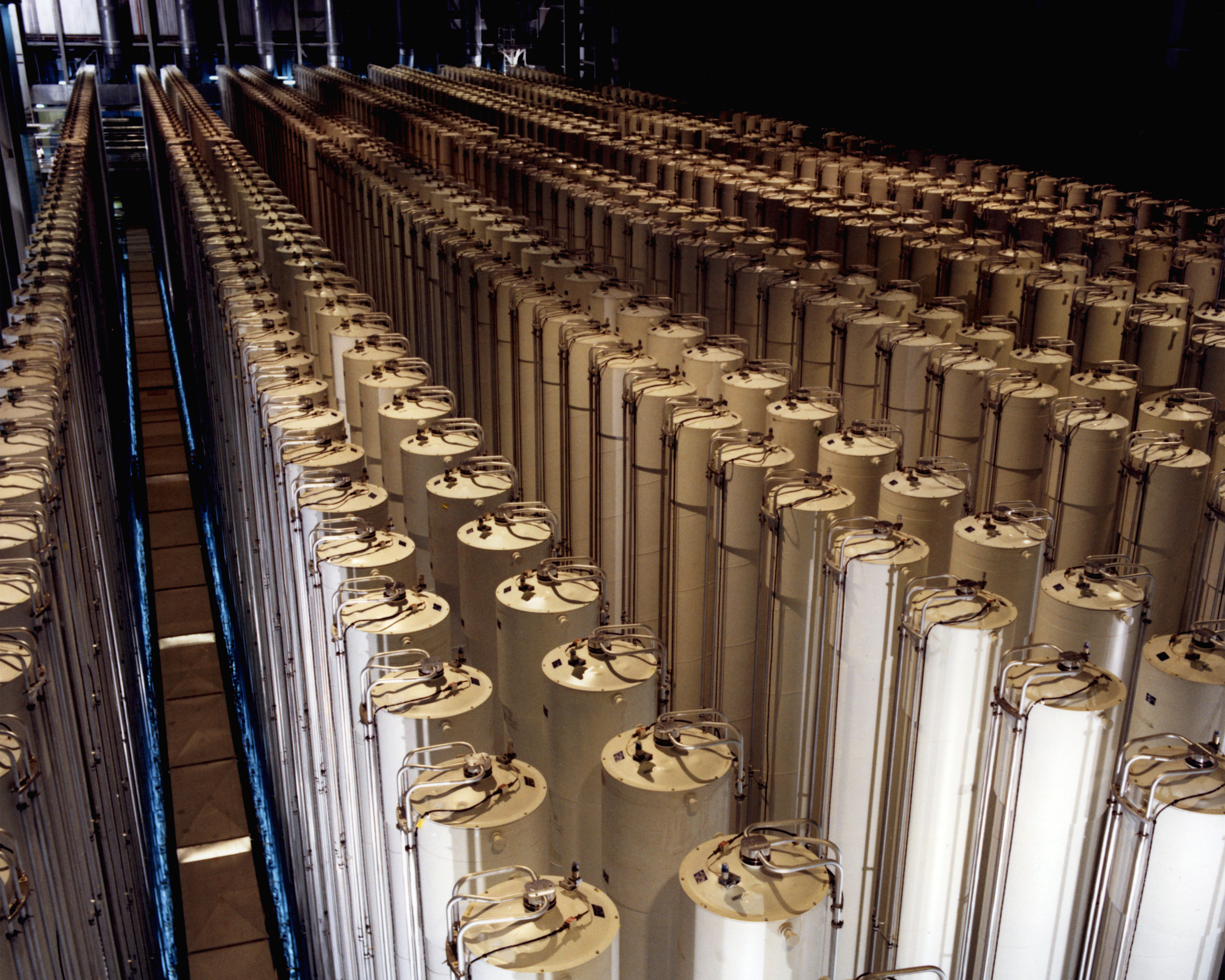 Cascade of gas centrifuges used to produce enriched uranium. This photograph is of the U.S. gas centrifuge plant in Piketon, Ohio from 1984.